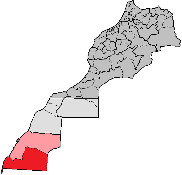 Location of the province Aousserd within the region Oued Ed-Dahab - Lagouira, Morocco. In total, Morocco has 16 regions, subdivided into 62 provinces and 13 prefectures.